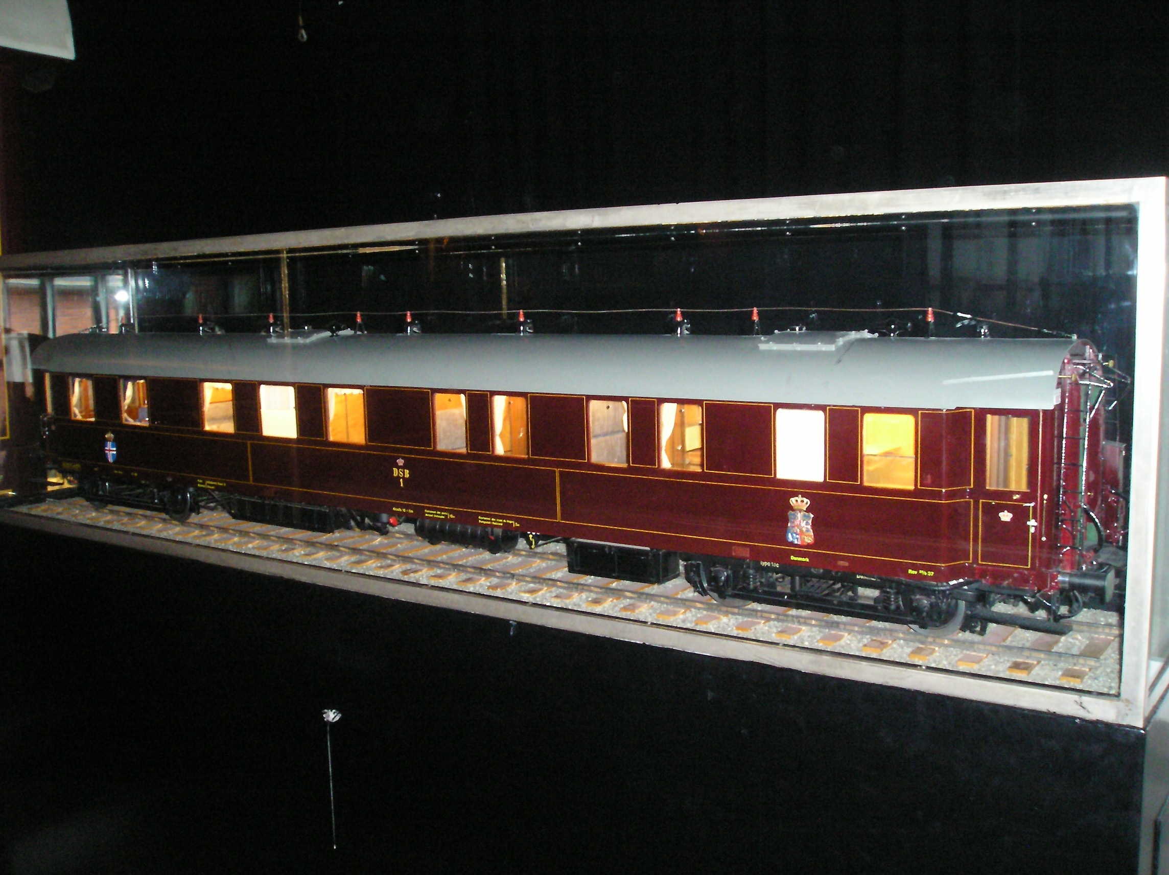 Model of the Danish royal salon coach DSB S 1 from 1937 in Danmarks Jernbanemuseum.